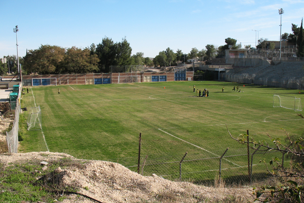 Football (soccer) stadium of Arad, Israel